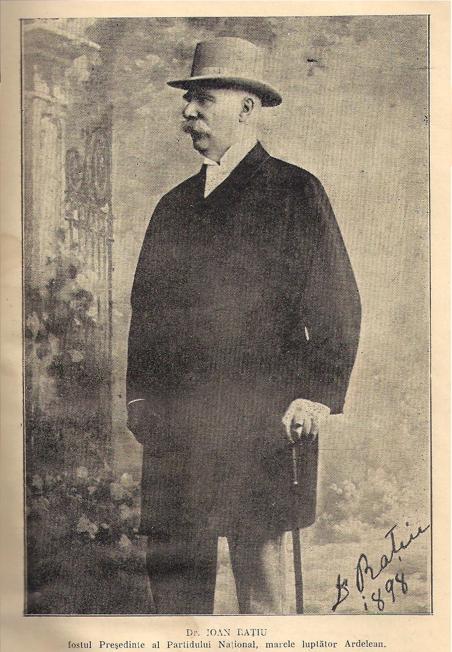 Dr. Ioan Ratiu at the age of 70 years (1898)